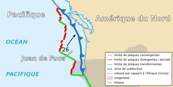 Map of the Juan de Fuca Plate